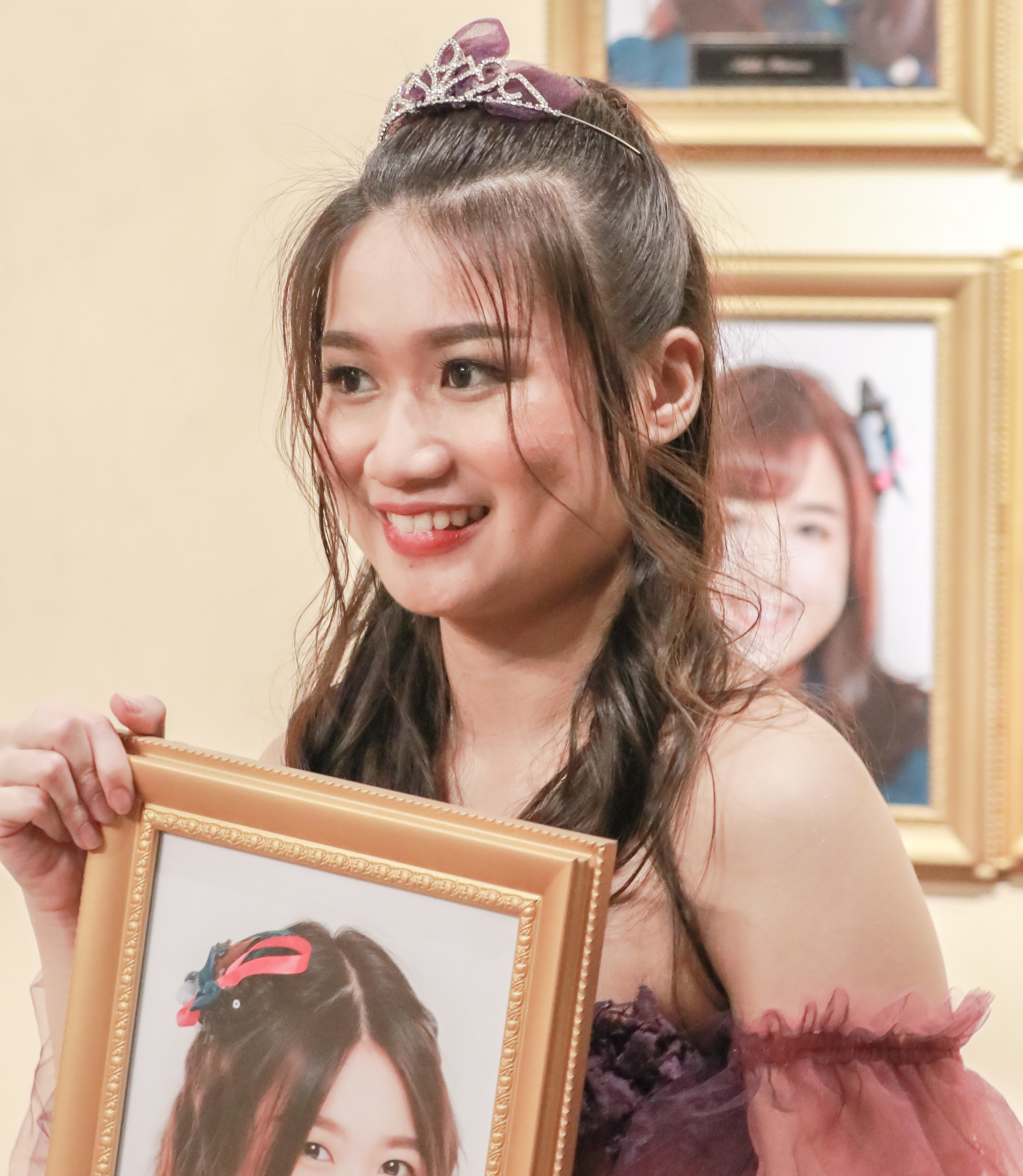 Sonia Natalia Winarto on 7 December 2019